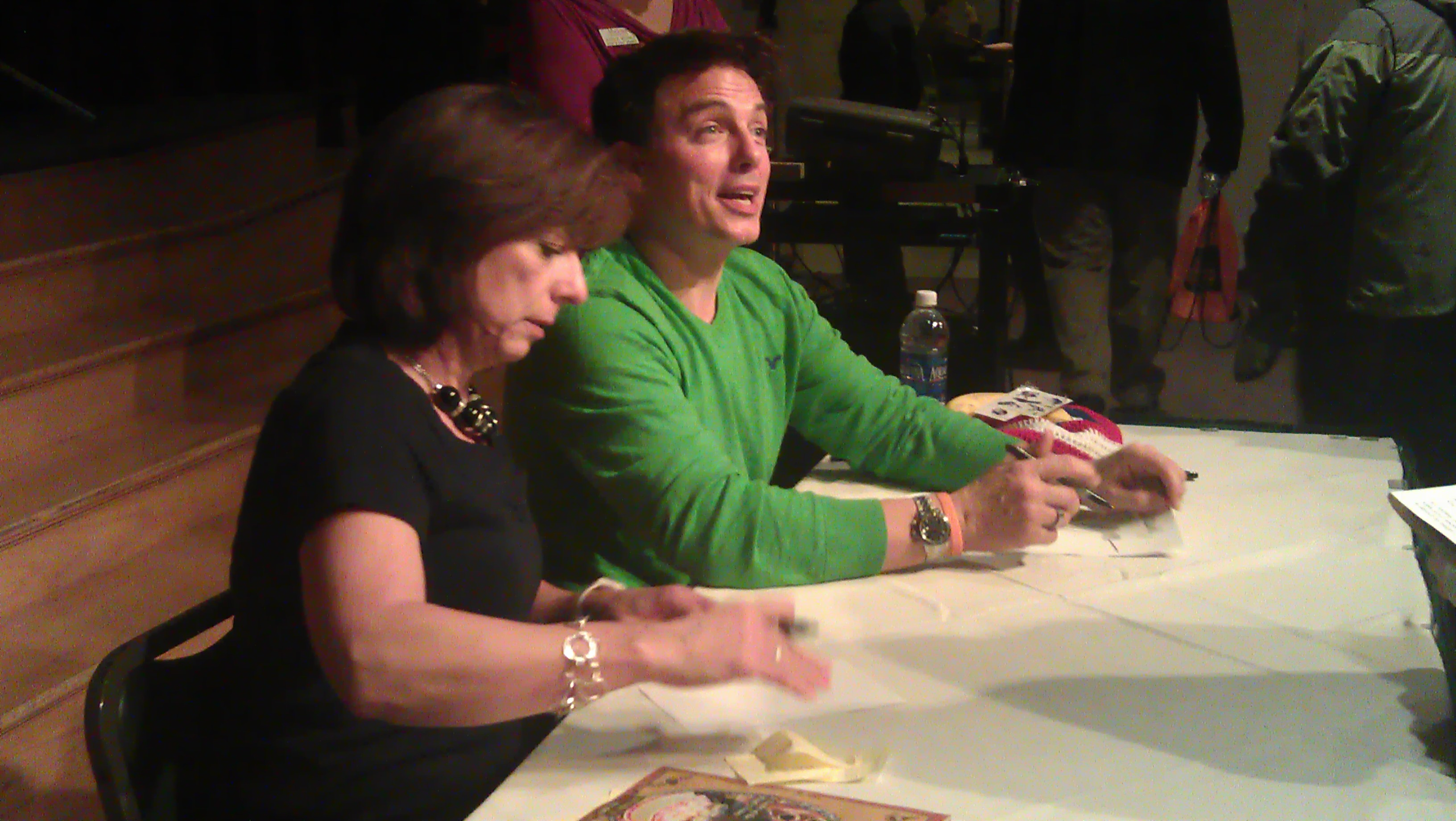 Carole and John Barrowman at the book launch of Hallow Earth, held at Alverno College in Milwaukee, Wisconsin